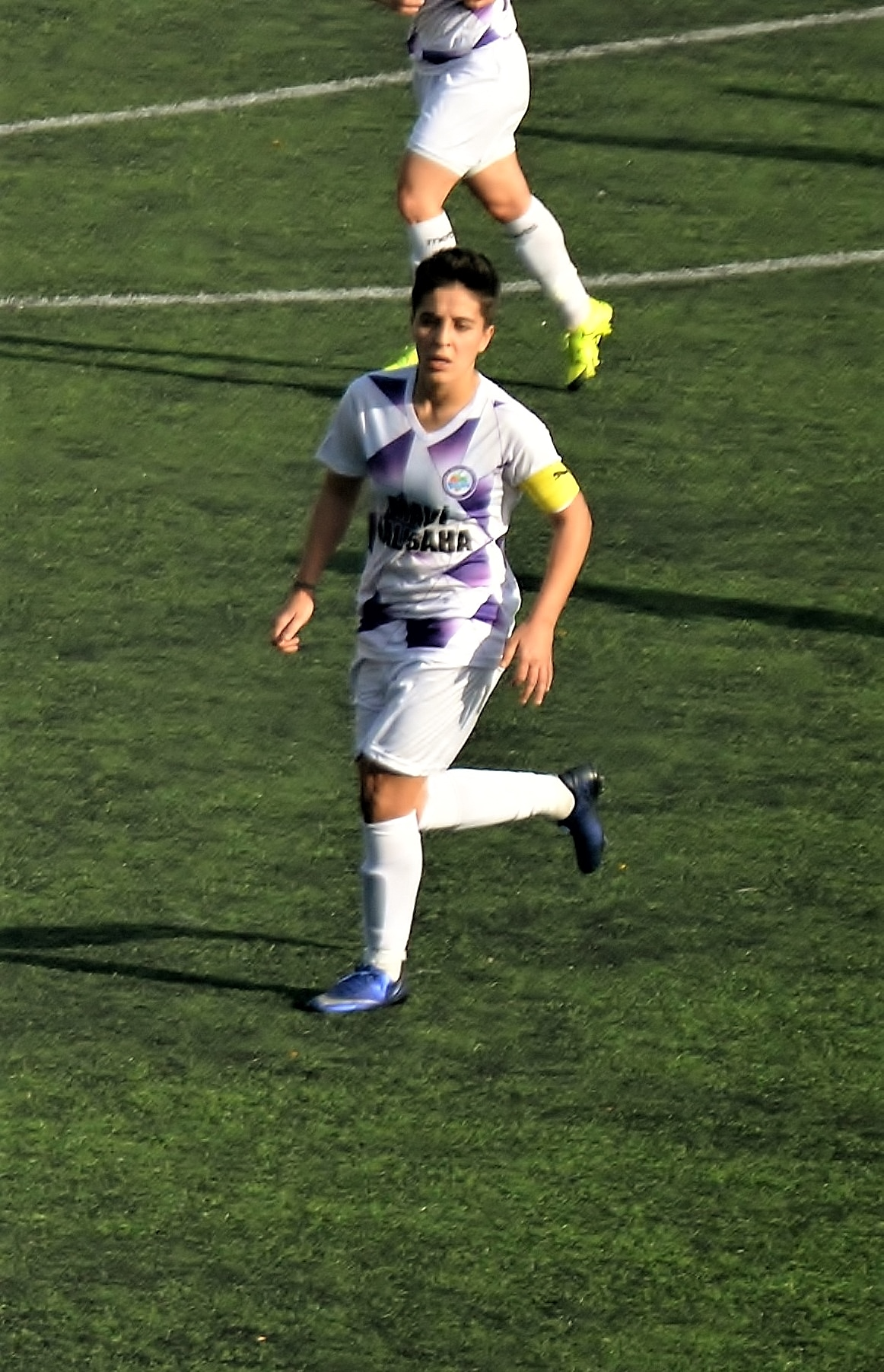 Başak İçinözbebek of Kdz. Ereğlispor in the 2017-18 Turkish Women's First League sason.